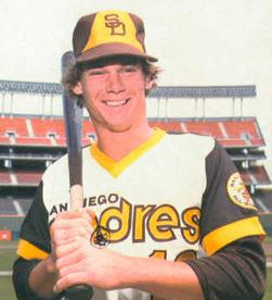 Professional baseball player Mike Champion